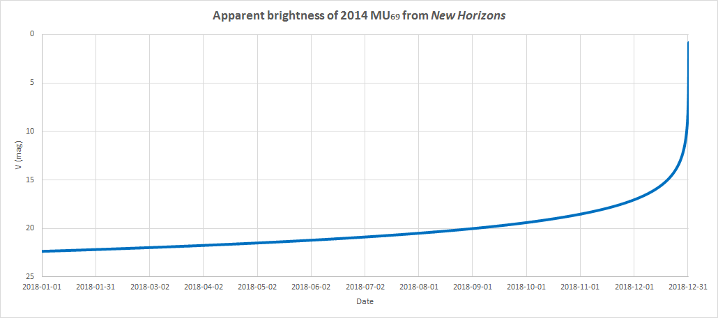 Apparent brightness of 2014 MU69, as seen from the New Horizons spacecraft